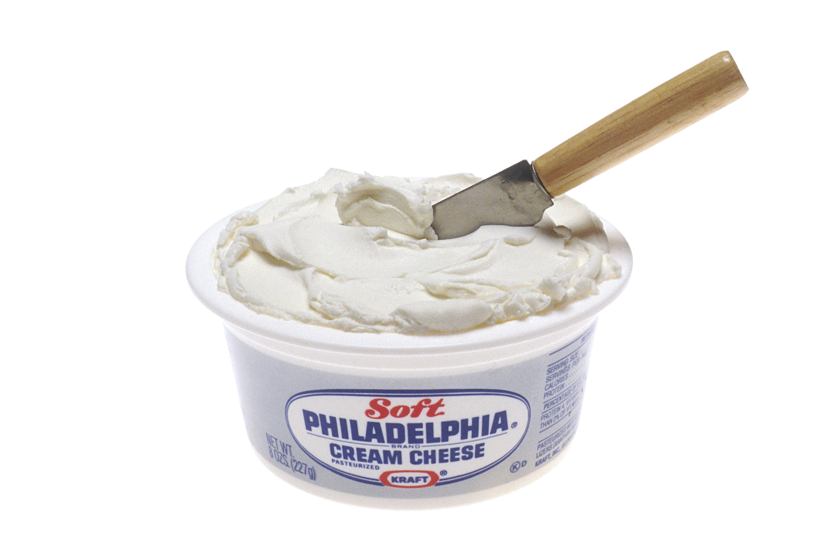 Title: Food: Cream Cheese: Interactive CD Description: (1) color slide shows a small, open, tub of soft Philadelphia brand cream cheese, with a knife in the cream cheese. Subjects (names): Topics/Categories: Food Type: Color Slide Source: National Cancer Institute Author: Renee Comet (photographer) AV Number: AV-9400-4234 Date Created: 1994 Date Added: 1/1/2001 Reuse Restrictions: None - This image is in the public domain and can be freely reused. Please credit the source and/or author listed above.